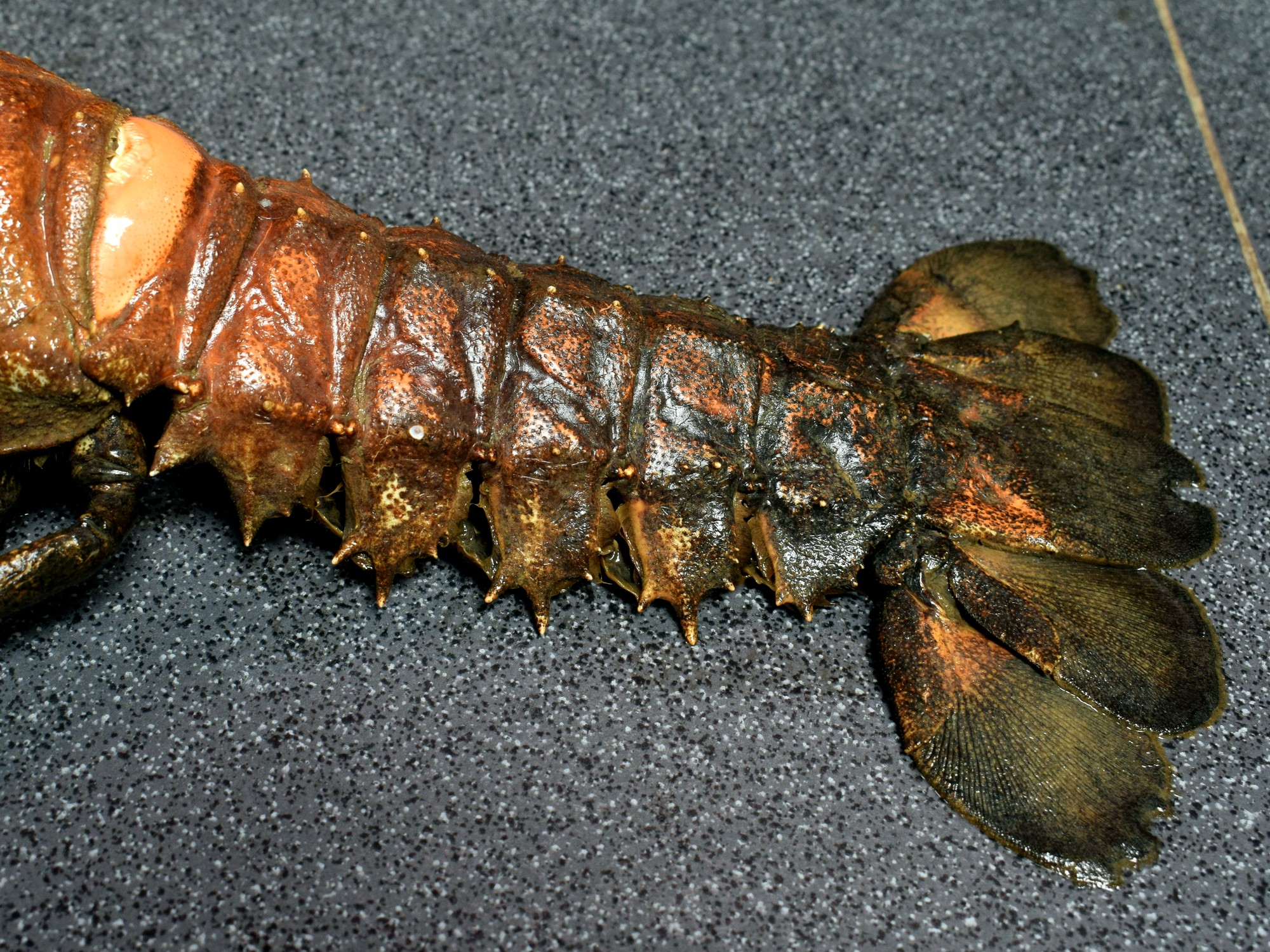 Indian Ocean spear lobster, Linuparus somniosus. Female, 134 mm CL (carapace length). From Palabuhanratu Fish Market, West Java, Indonesia. Abdomen and tail close-up.